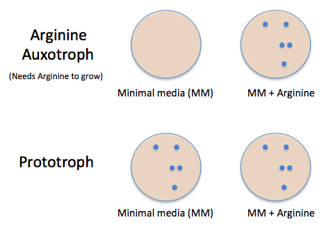 Colonies that are Arginine Auxotrophs are depicted as only being able to grow on media where Arginine is present. Same colonies represented as Prototrophs (being able to grow with minimal media and producing all necessary from the media metabolites)